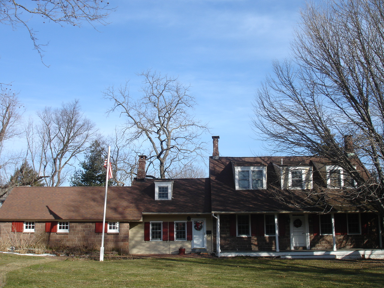 I took this photo of the Adam Vandelinda House myself on January 16, 2012.